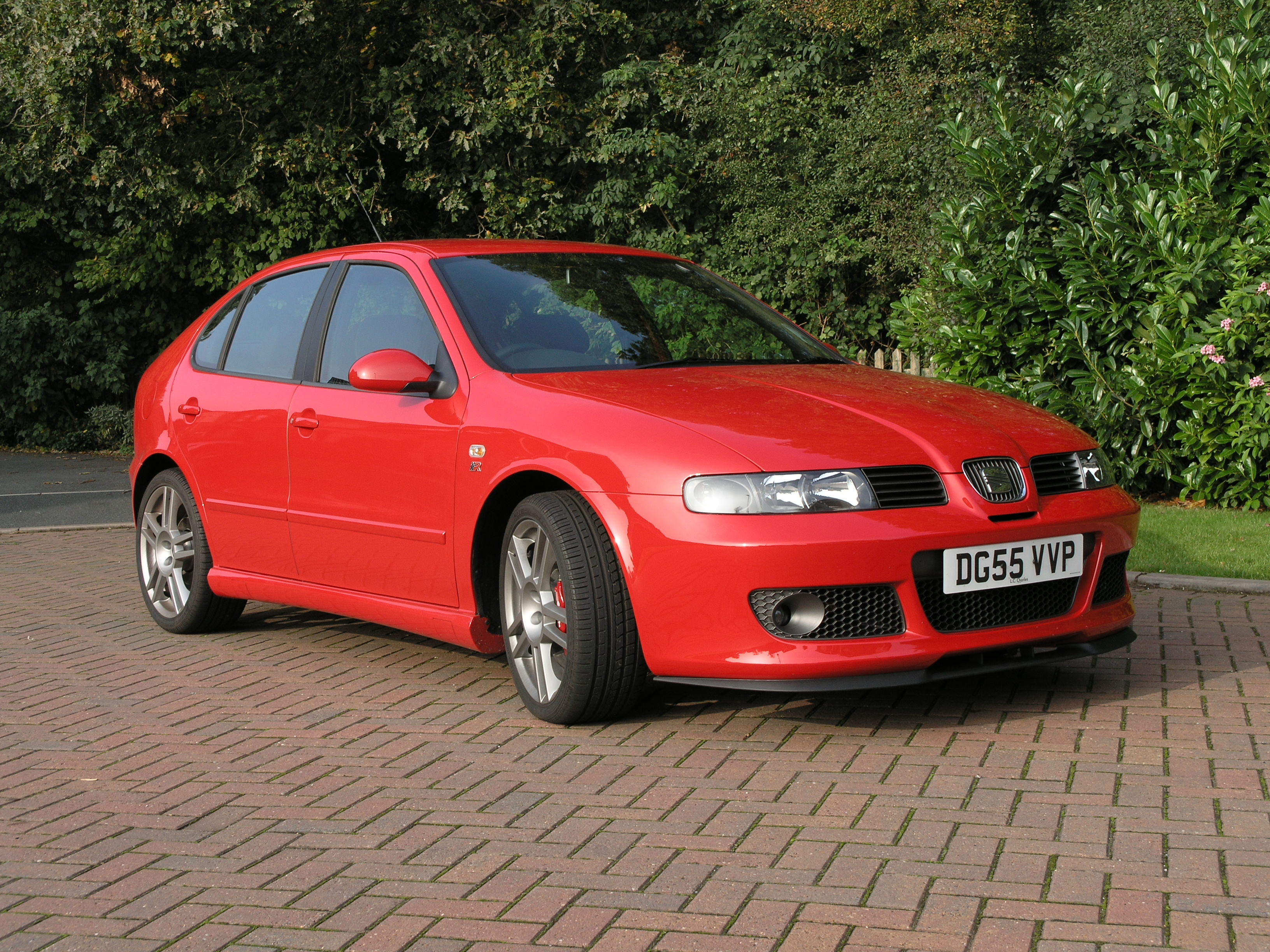 Gray's got a new motor